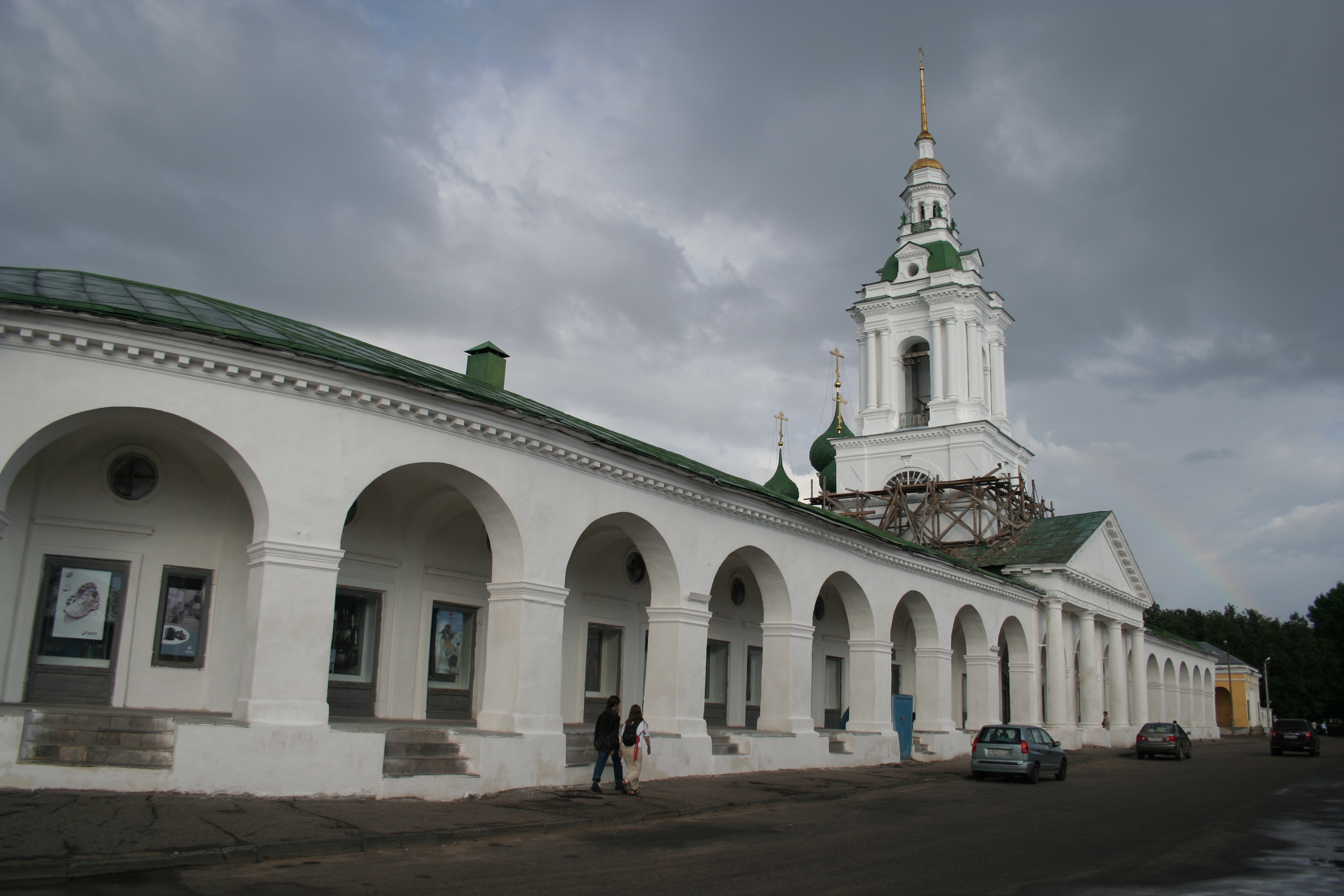 Old Trade Rows in Kostroma, Russia. Red Rows with the bell tower of the Church of the Saviour in the Rows.